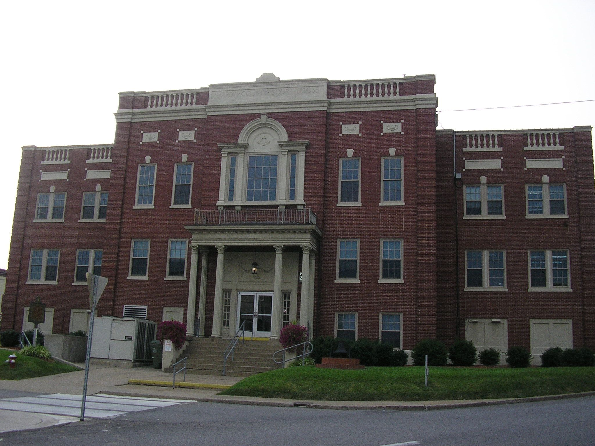 Hardin County, Kentucky Courthouse